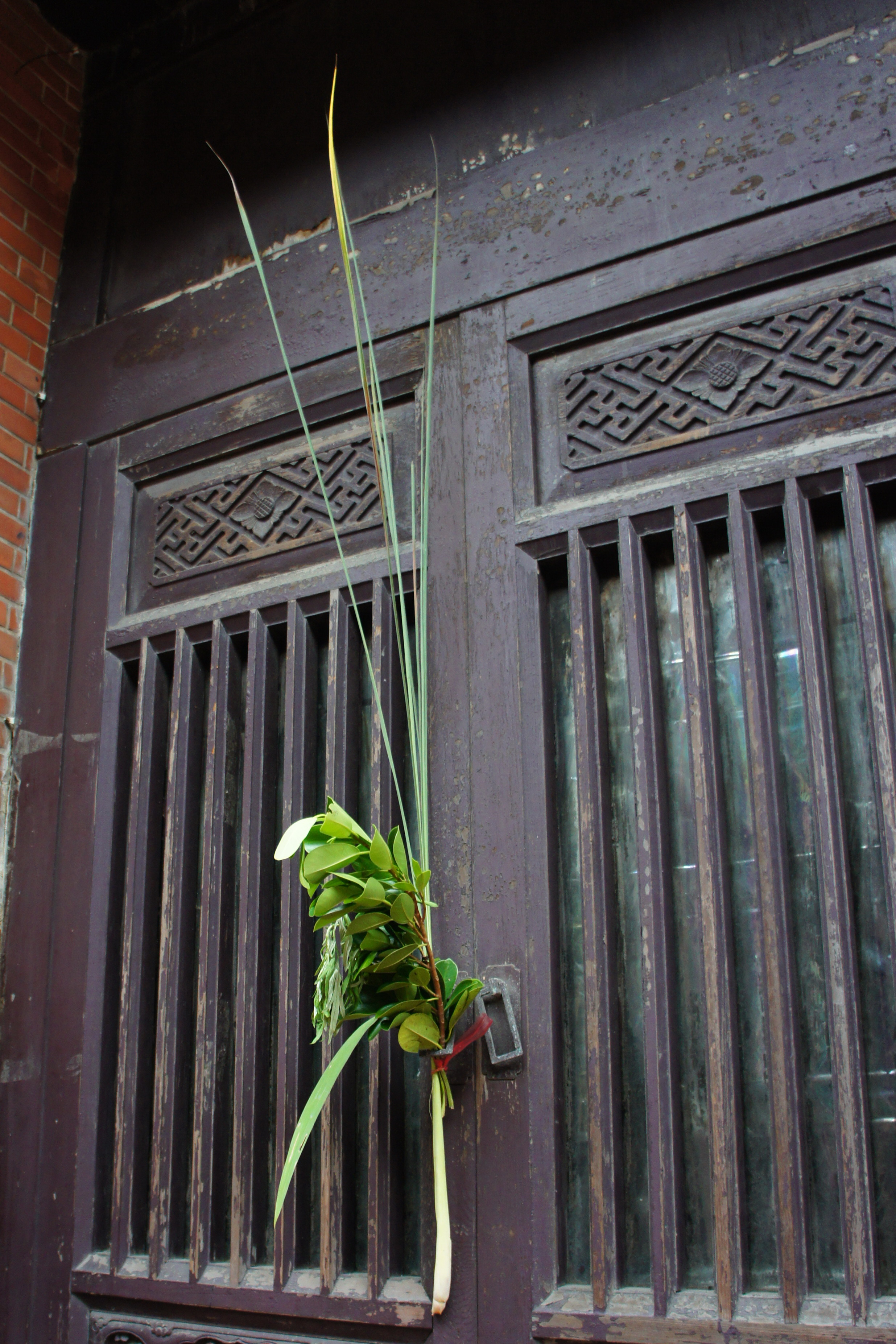 Auspicious plants (Acorus calamus, Artemisia argyi, and banyan leaves) are hung over the house door to protect against evil spirits during the Dragon Boat Festival.